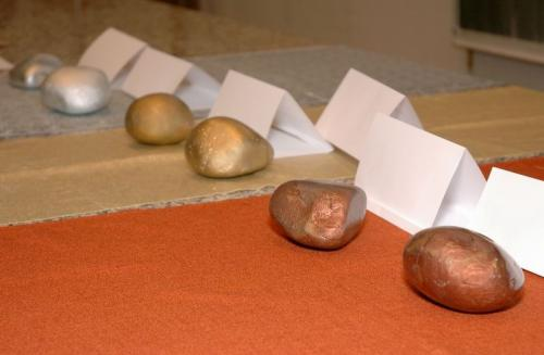 Erratic boulders as negative price for pseudoscientific individuals and groups awarded by Czech sceptical club Sisyfos